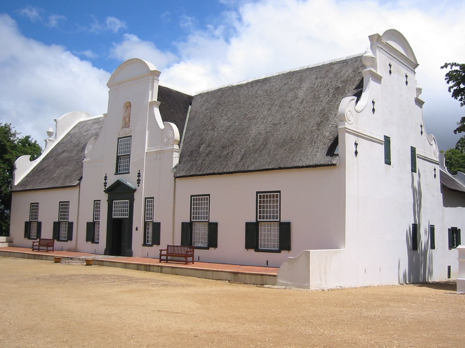 Groot Constantia, an historic Cape Dutch homestead near Cape Town.